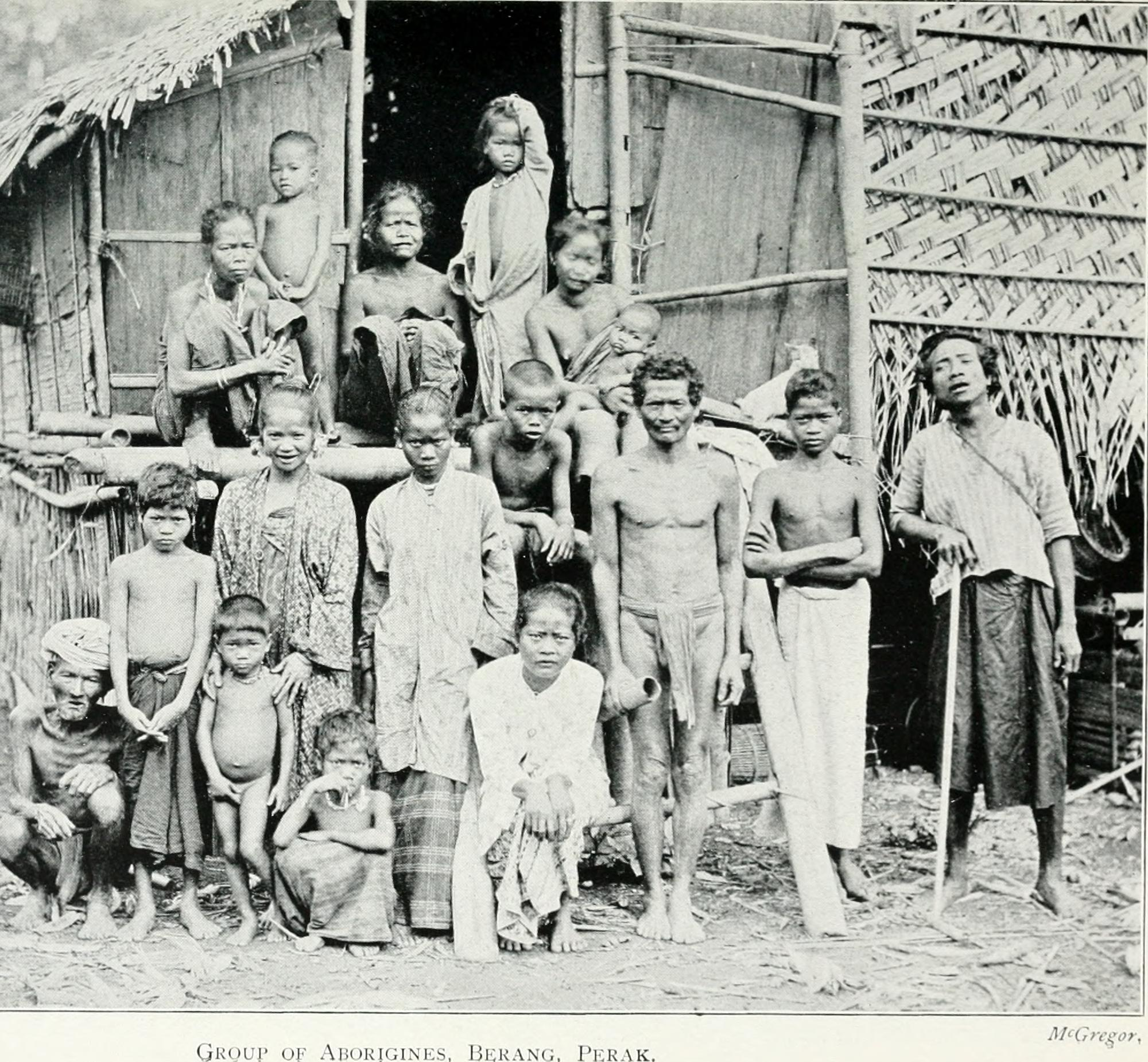 Title: Pagan races of the Malay Peninsula Year: 1906 (1900s) Authors: Skeat, Walter William, 1866- Blagden, Charles Otto, 1864-1949 Subjects: Ethnology -- Malay Peninsula Malays (Asian people) Malay Peninsula -- Social life and customs Malay Peninsula -- Religion Malay Peninsula -- Aboriginal dialects Publisher: London : Macmillan and Co., limited (etc., etc.) Text Appearing Before Image: Ulu Bkkang, Pkkak. A vkuv old Sakai. Asked his age, he said, pointing to some very big durian trees, ■When these diuian trees were planted 1 was a little boy. 786 Text Appearing After Image: p^ . *.••■..: I